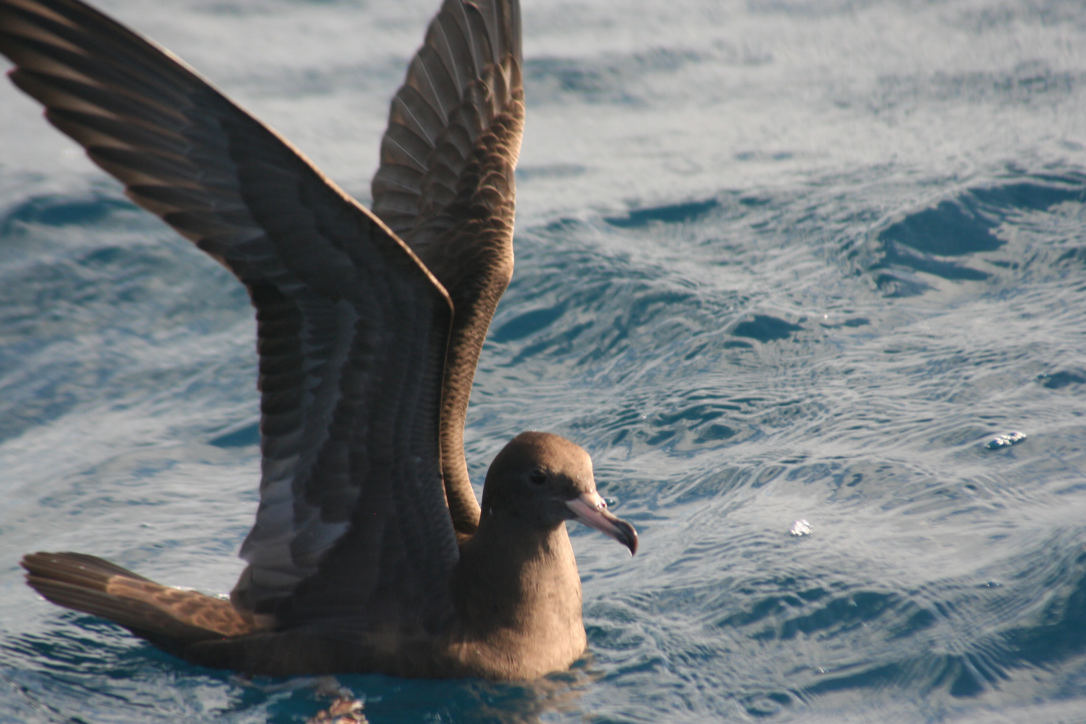 The Flesh-footed Shearwater, Puffinus carneipes.